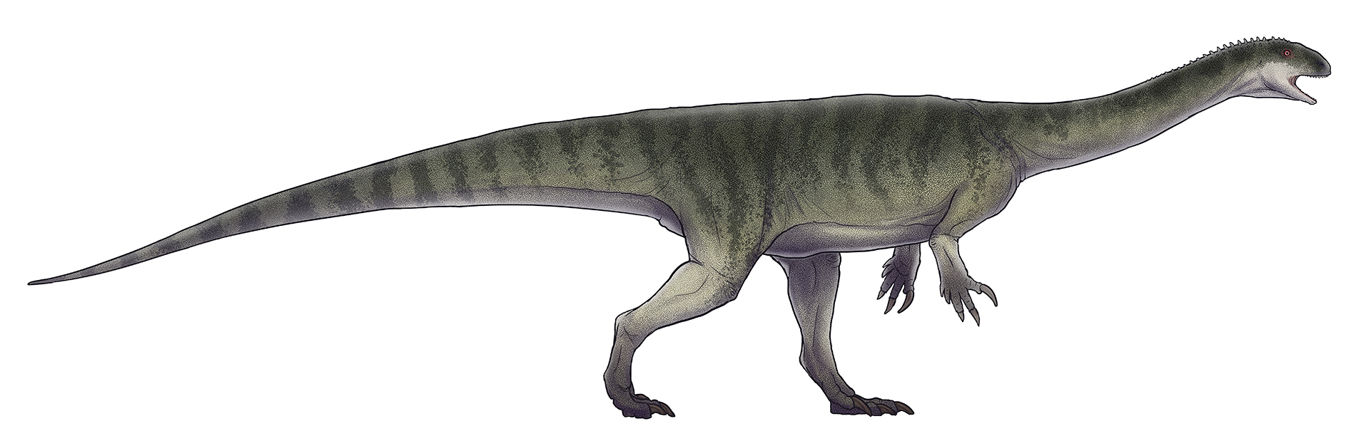 Full body reconstruction of Jingshanosaurus xinwaensis.